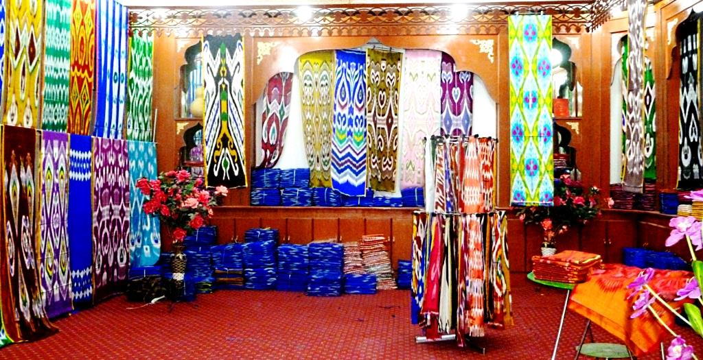 I took this photo on a trip to Khotan in 2011.